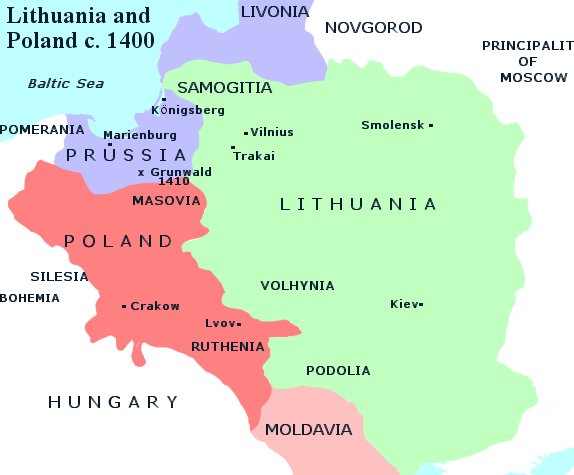 Map of Lithuania and Poland, c.1400. Information taken mainly from the old German Map Image:Poland under Jagello.jpg, plus a few locations from a map in the book The Times Concise Atlas of World History, ISBN 0723006741.